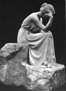 A sculpture by Marie-Antoinette Demagnez, circa 1895